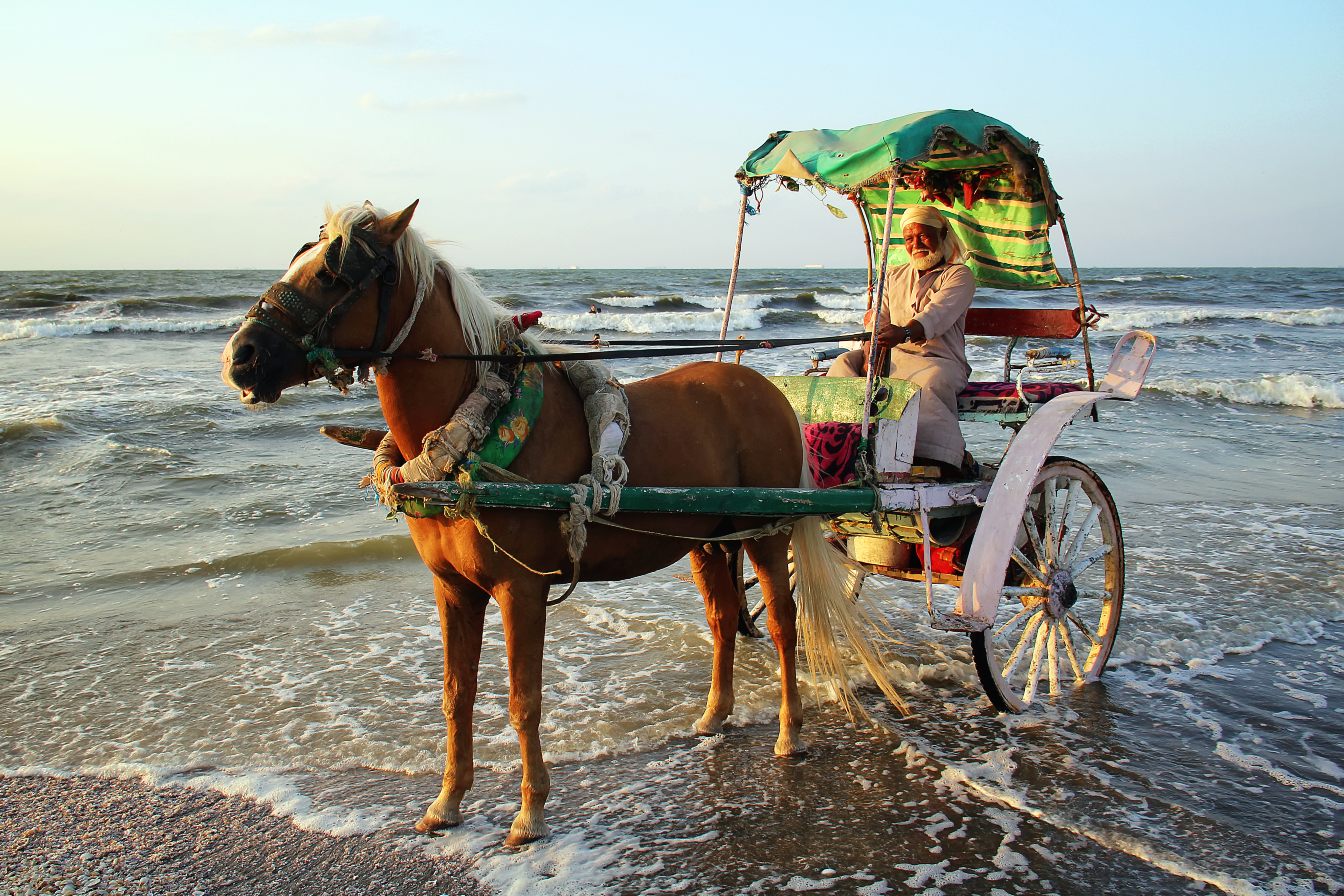 Ready to port said beach tour - Egypt